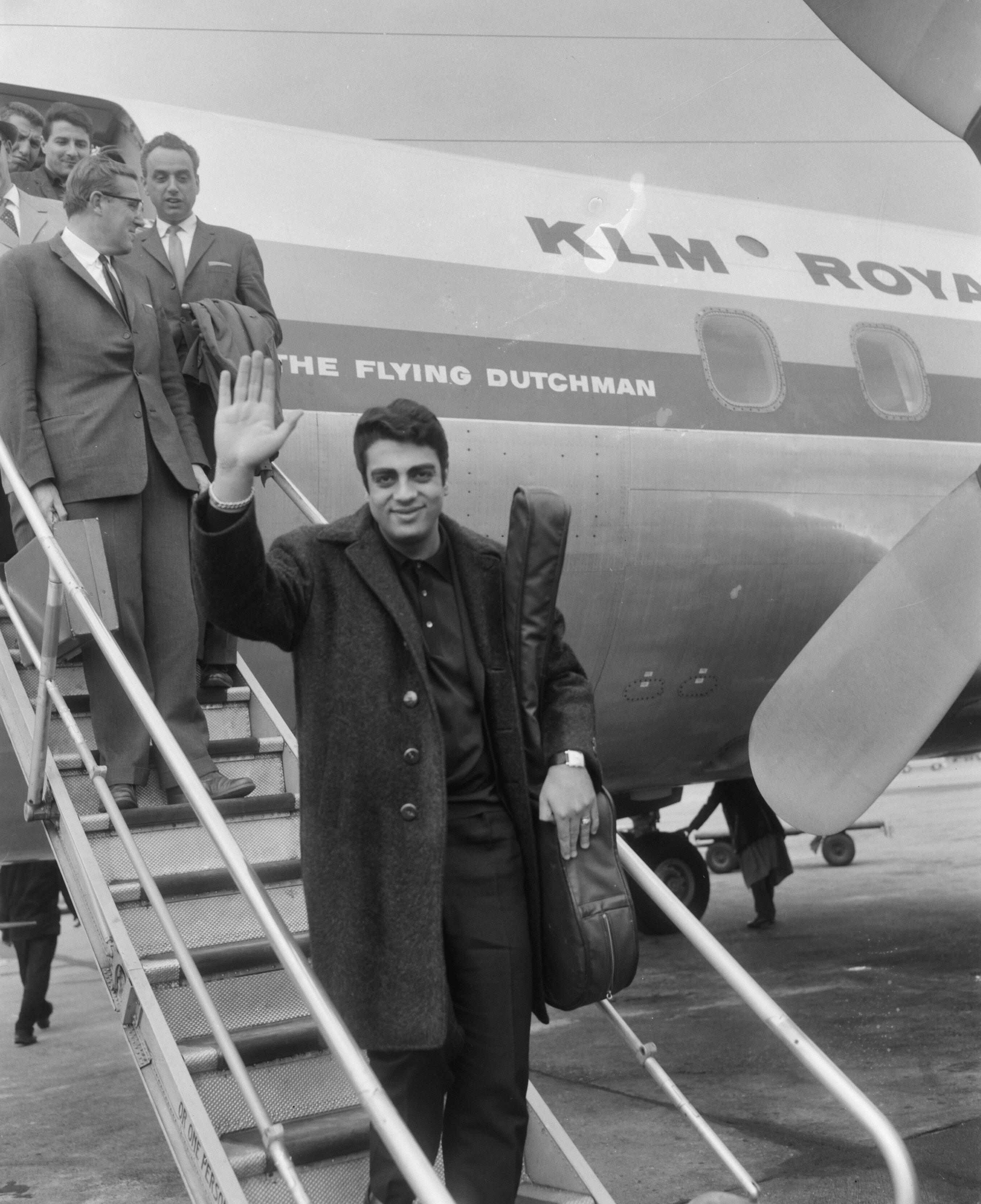 Arrival of Enrico Macias at Schiphol Airport (by Flying Dutchman), to perform at Grand Gala du Disque. Date:1 October 1965